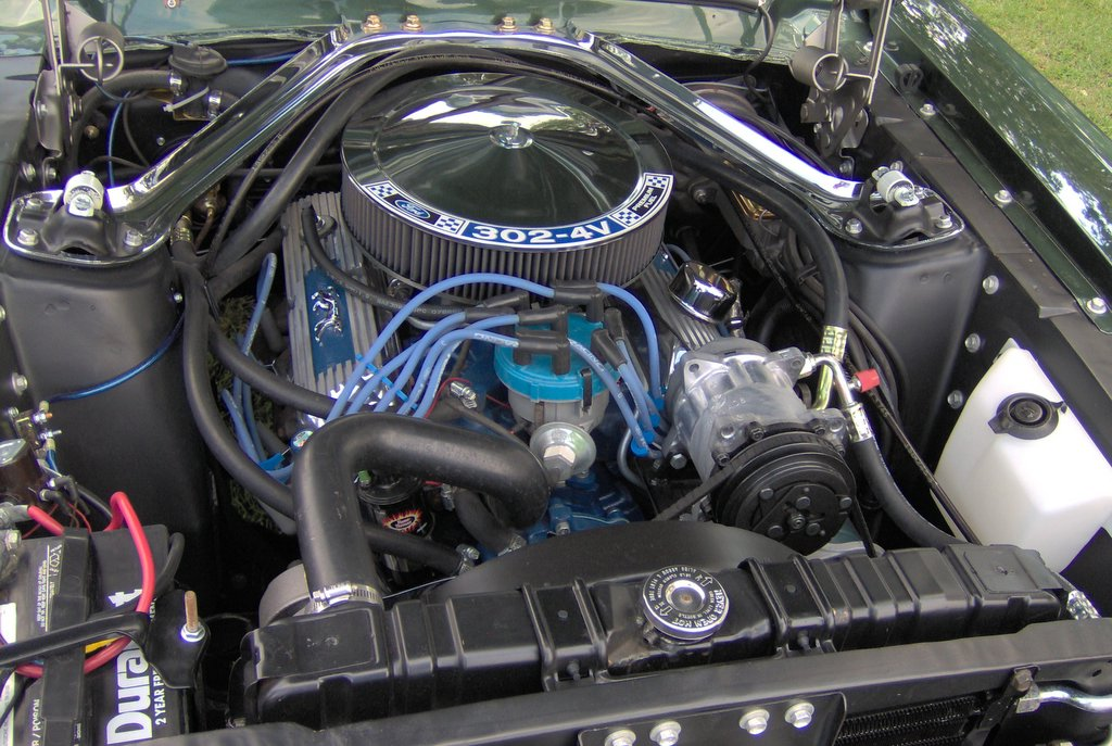 1968 Mercury Cougar convertible(not factory)302 4V Windsor V8. Note that the "4V" refers to the car's 4-barrel carburetion (twin 2-barrels); it does not have a 4-valve head. "4V" Stands for 4-Venturi